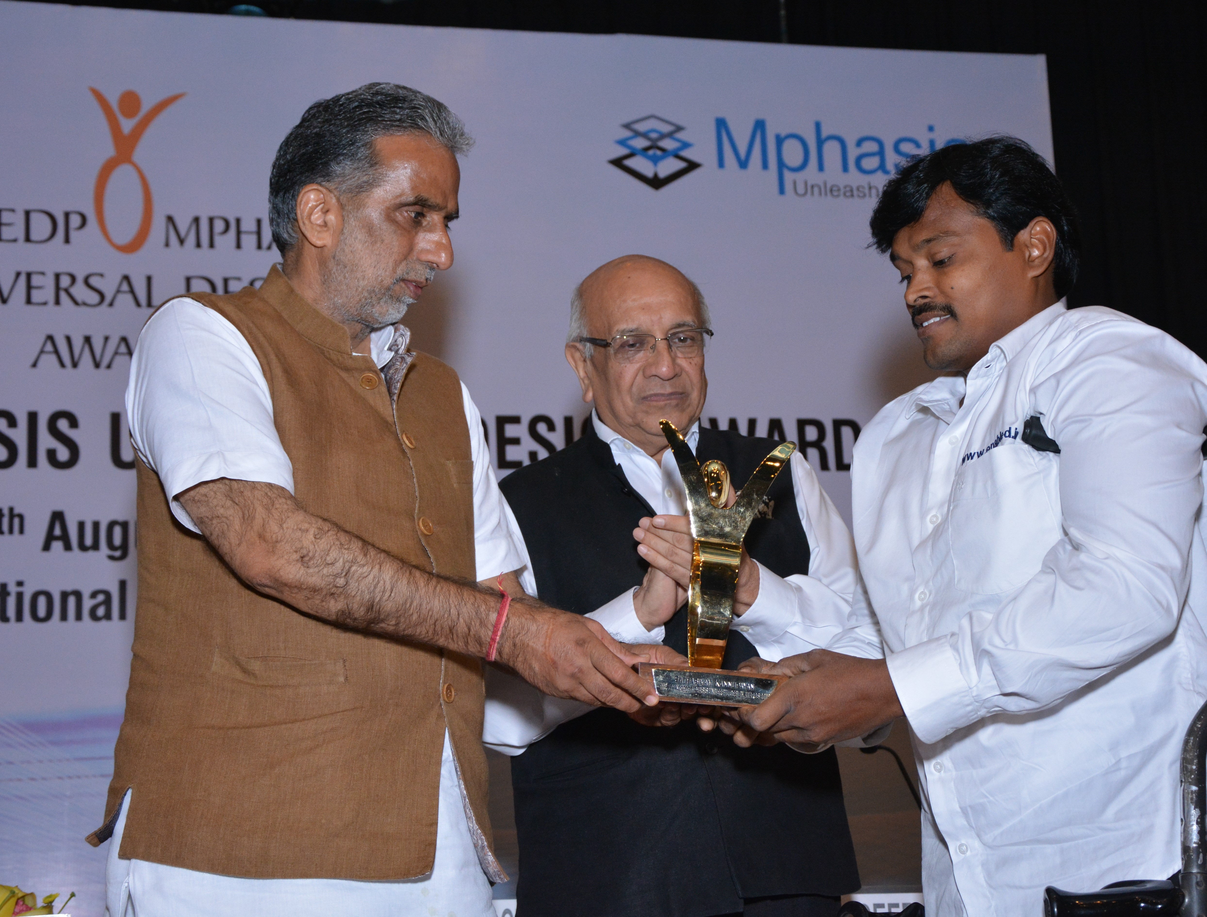 Mr. Sathasivam Kannupayan ( Category A ( Person with Disabilities) awardee, being felicitated by the Hon'ble Minister Mr. Krishan Pal Gurjar